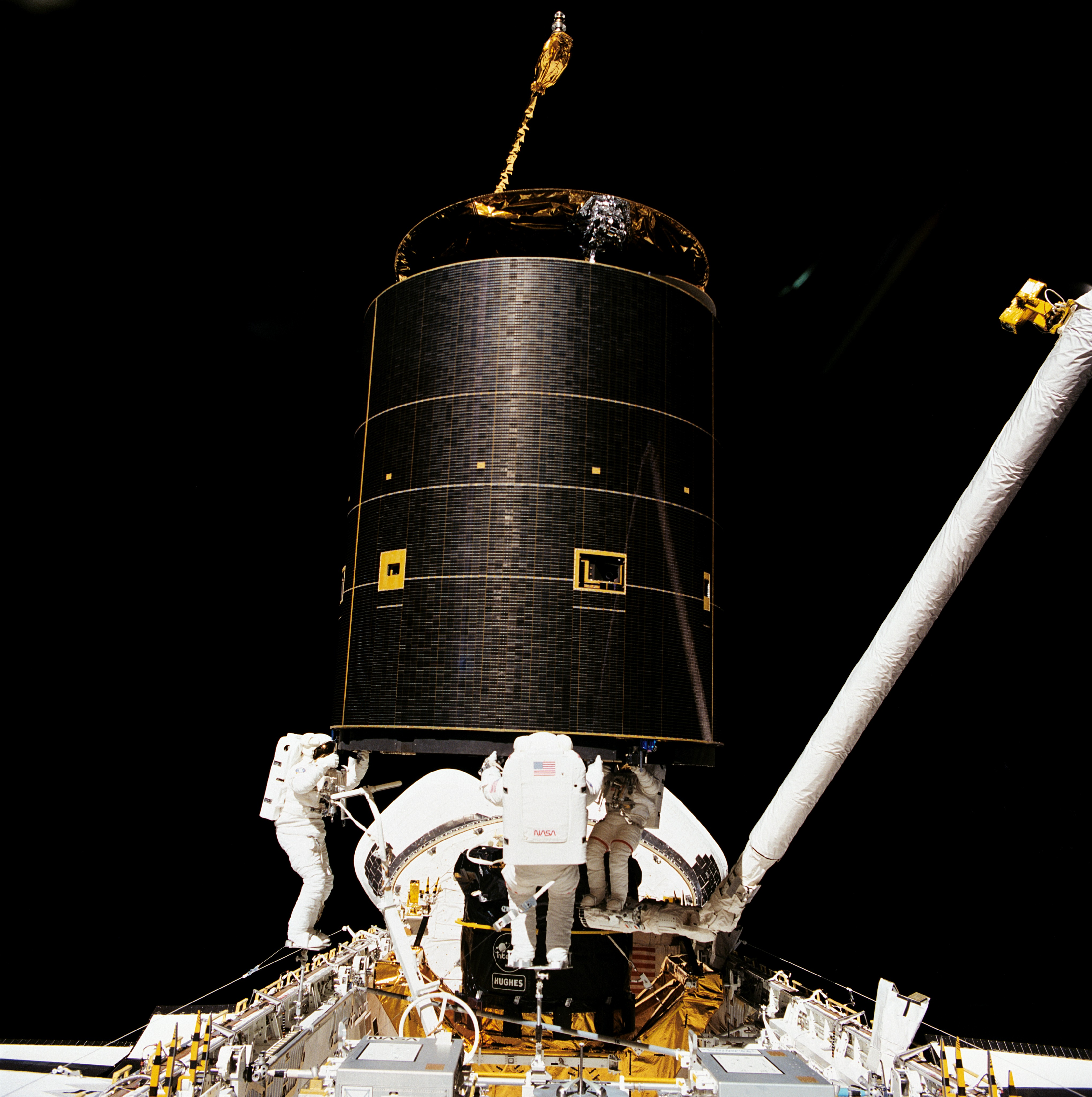 Three crewmembers of mission STS-49 hold onto the 4.5 ton International Telecommunications Organization Satellite (INTELSAT) VI after a six-handed "capture" was made minutes earlier during the mission's third extravehicular activity (EVA). From left to right: Mission Specialists(MS) Richard J. Hieb, Thomas D. Akers, and Pierre J. Thuot. The three prepare to attach the capture bar which is tethered to Hieb. Thuot is positioned on the Remote Manipulator System (RMS) arm, from which he had made two earlier unsuccessful grapple attempts on two-person EVA sessions. Ground controllers and crewmembers agreed that a third attempt, using three mission specialists in the payload bay (PLB) was the effort needed to accomplish the capture feat. It worked, and to date, this remains the only three-person EVA. Behind the three astronauts is the vertical perigee stage which will be attached to the Intelsat VI prior to its release from the PLB.